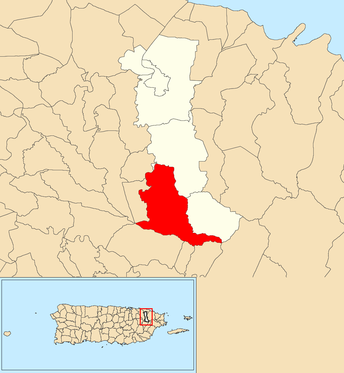 Lomas, Canóvanas, Puerto Rico locator map